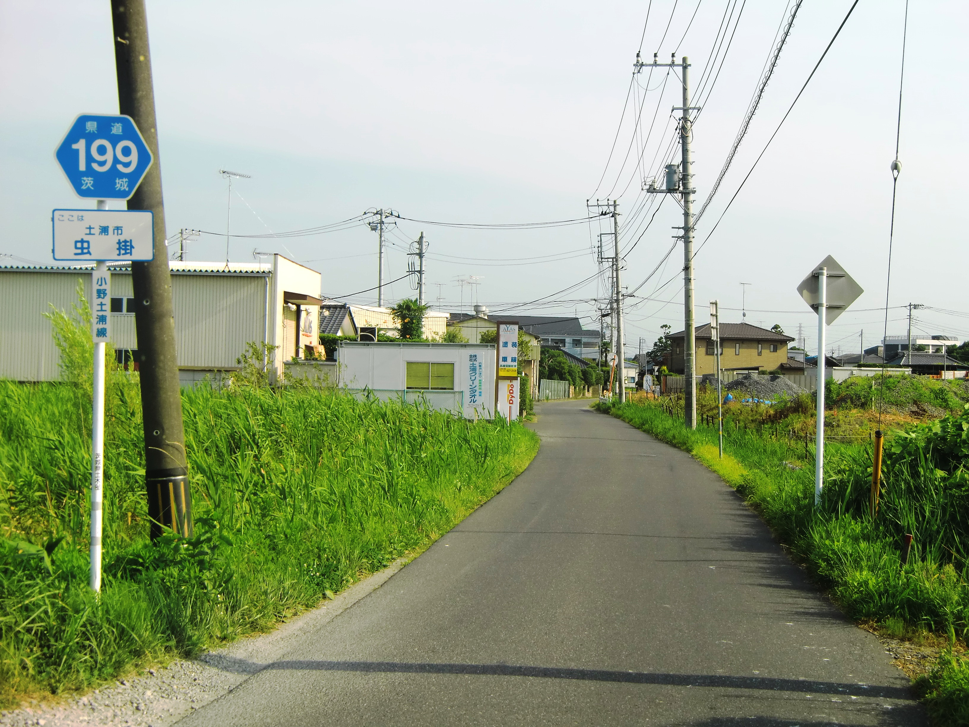 Ibaraki prefectural road 199(Ono-Tsuchiura line) in Mushikake, Tsuchiura city, Ibaraki prefecture, Japan.